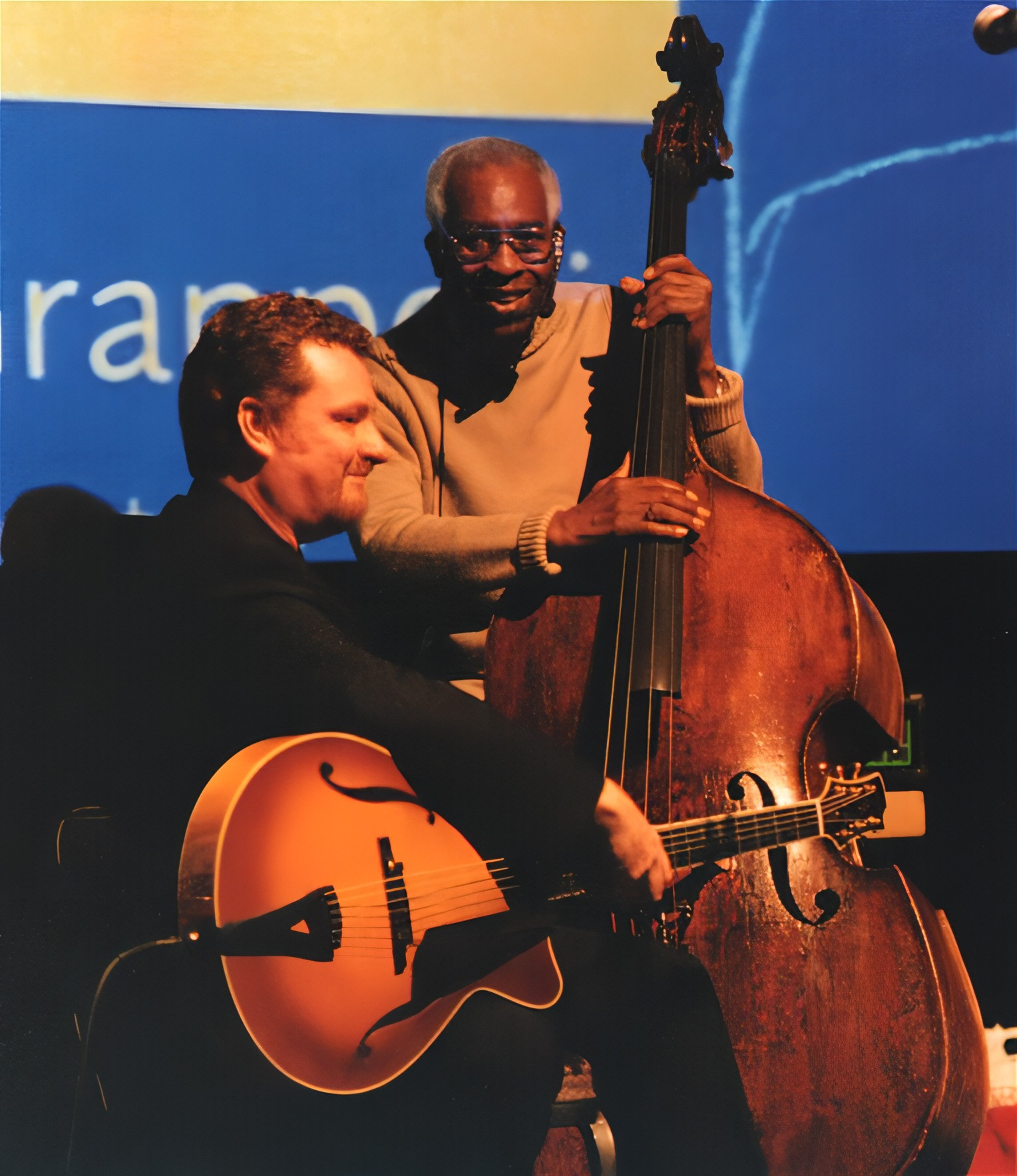 Martin Taylor (left) and Coleridge Goode at launch of the Stephane Grappelli DVD, London, 2002 (Tony Rees photograph)